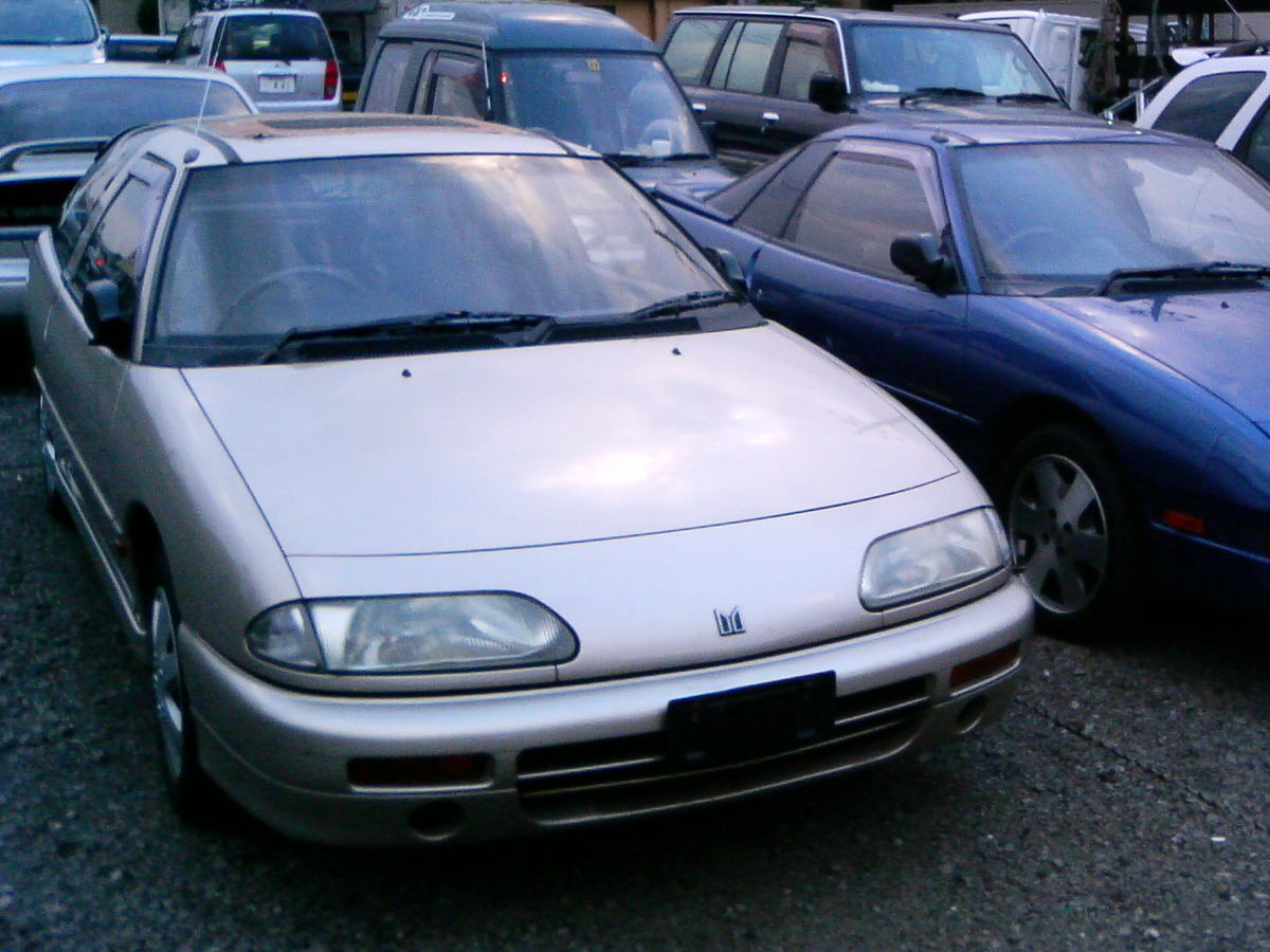 JDM Isuzu Gemini Wagonback in JPN.